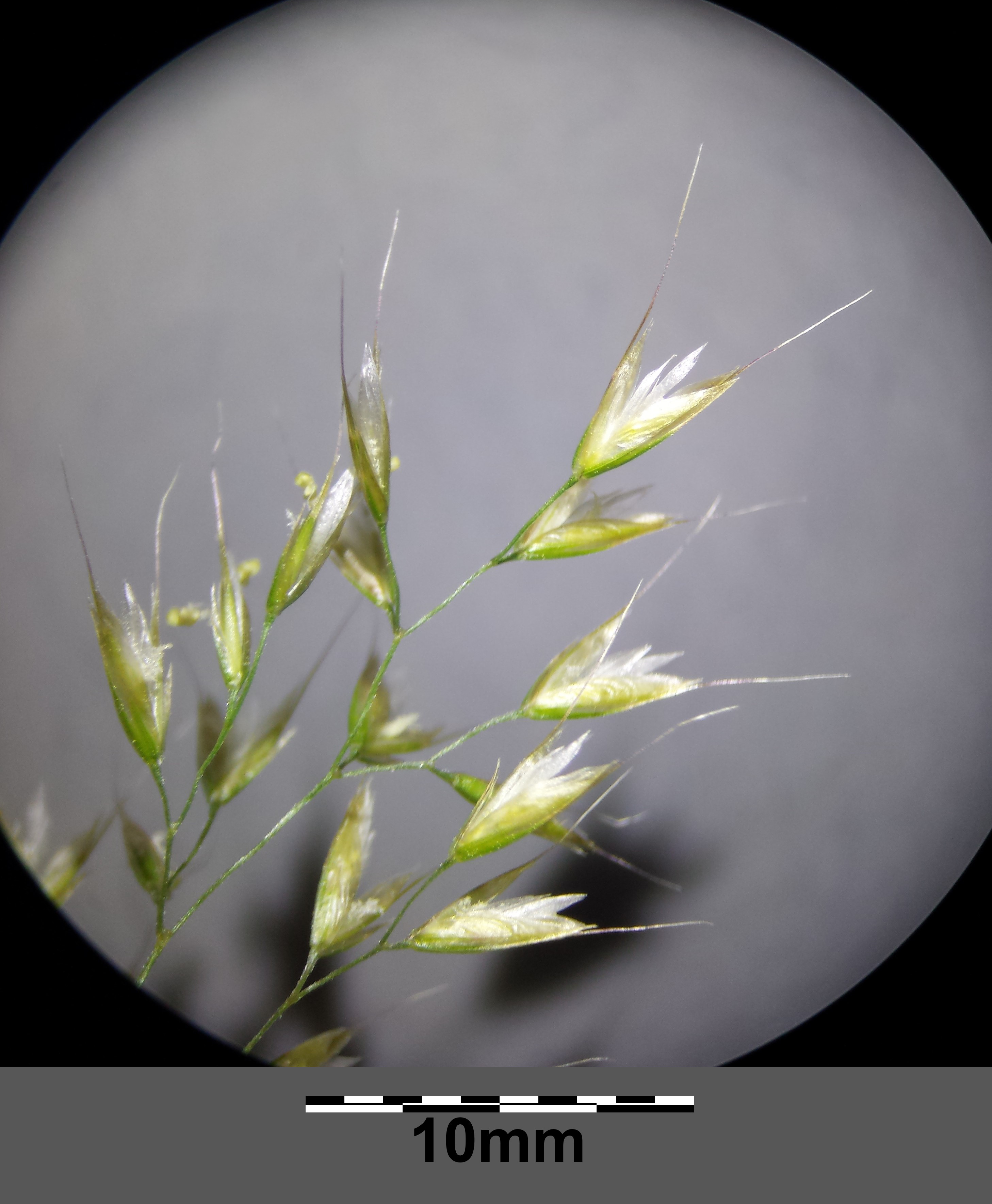 Panicle (detail) Taxonym: Trisetum flavescens subsp. flavescens ss Fischer et al. EfÖLS 2008 ISBN 978-3-85474-187-9 Location: "In der Hölle" near Wetzleinsdorf, district Korneuburg, Lower Austria - ca. 280 m a.s.l. Habitat: fallow land